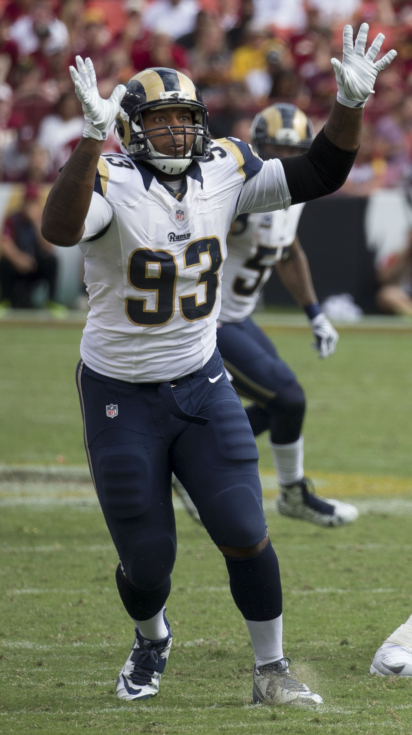 Rams at Redskins 9/20/15